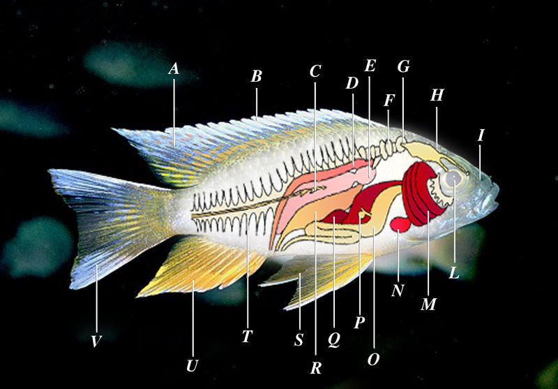 Ray-finned fish come in many forms. The figure shows general characteristics of the more common anatomical parts: A - dorsal fin: B - fin rays: C - lateral line: D - kidney: E - swim bladder: F - apparatus of Weber: G - inner ear: H - brain: I - nostrils: L - eye: M - gills: N - heart O - stomach: P - gall bladder: Q - spleen: R - internal sex organs (ovaries or testes): S - ventral fins: T - spine: U - anal fin: V - tail (caudal fin). Possible other parts not shown: barbels, adipose fin, external genitalia (gonopodium).